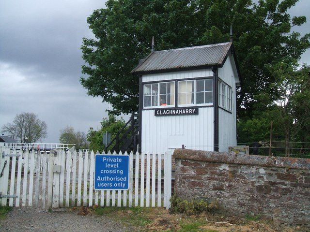 Clachnaharry Signal Box This wooden signal box, of standard Highland Railway pattern, is adjacent to the steel swing bridge built in 1909 for the Highland Railway; it crosses the east end of the Caledonian Canal at this point.